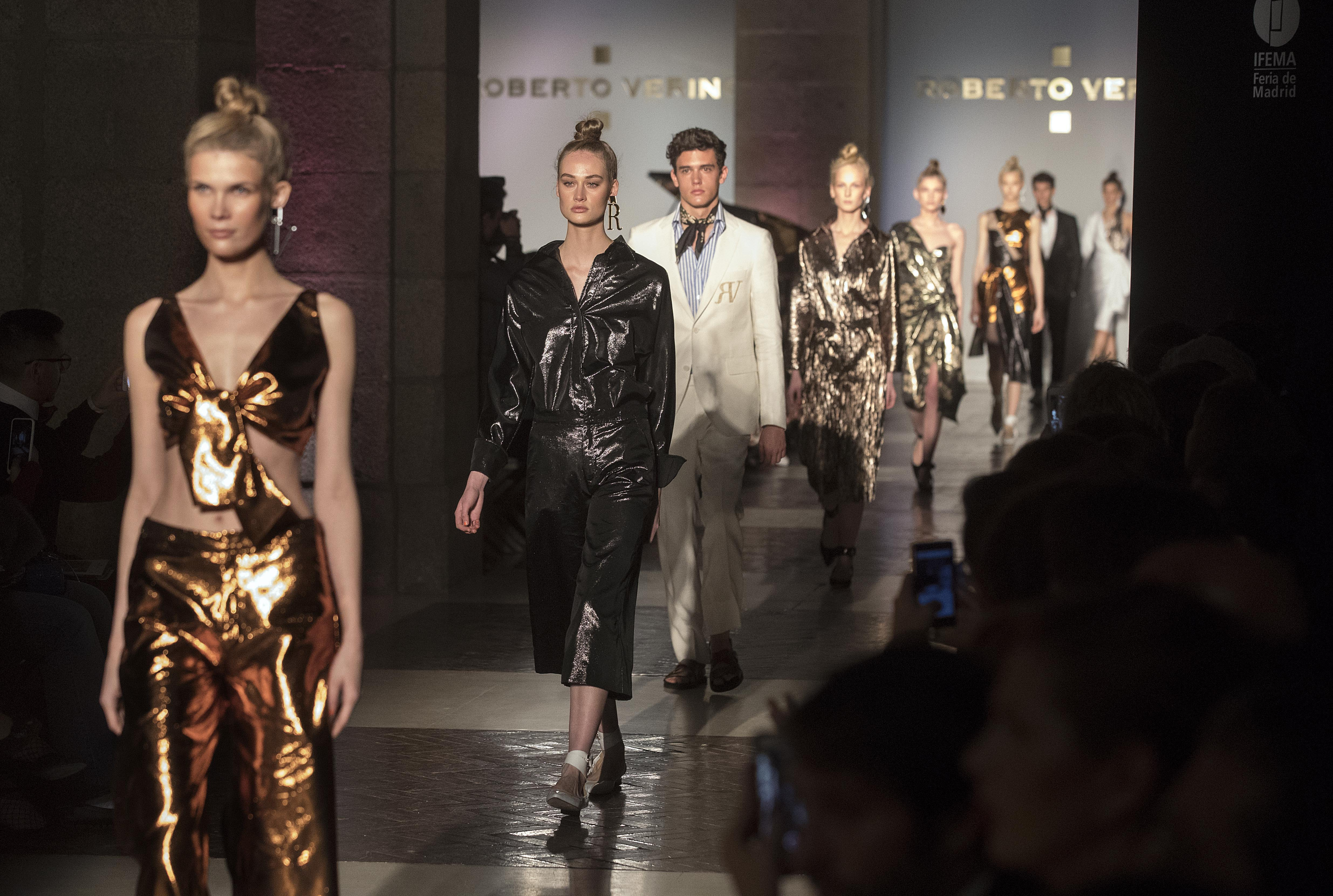 La Real Casa de Correos acoge por primera vez la Mercedes Benz-Fashion Week Madrid. ¡Bienvenidos al corazón de Madrid, acercando la moda a las calles! Enhorabuena Roberto Verino por el fantástico desfile #SS17: lino blanco, rayas azul cielo y algodones, esencia de vuestra firma.